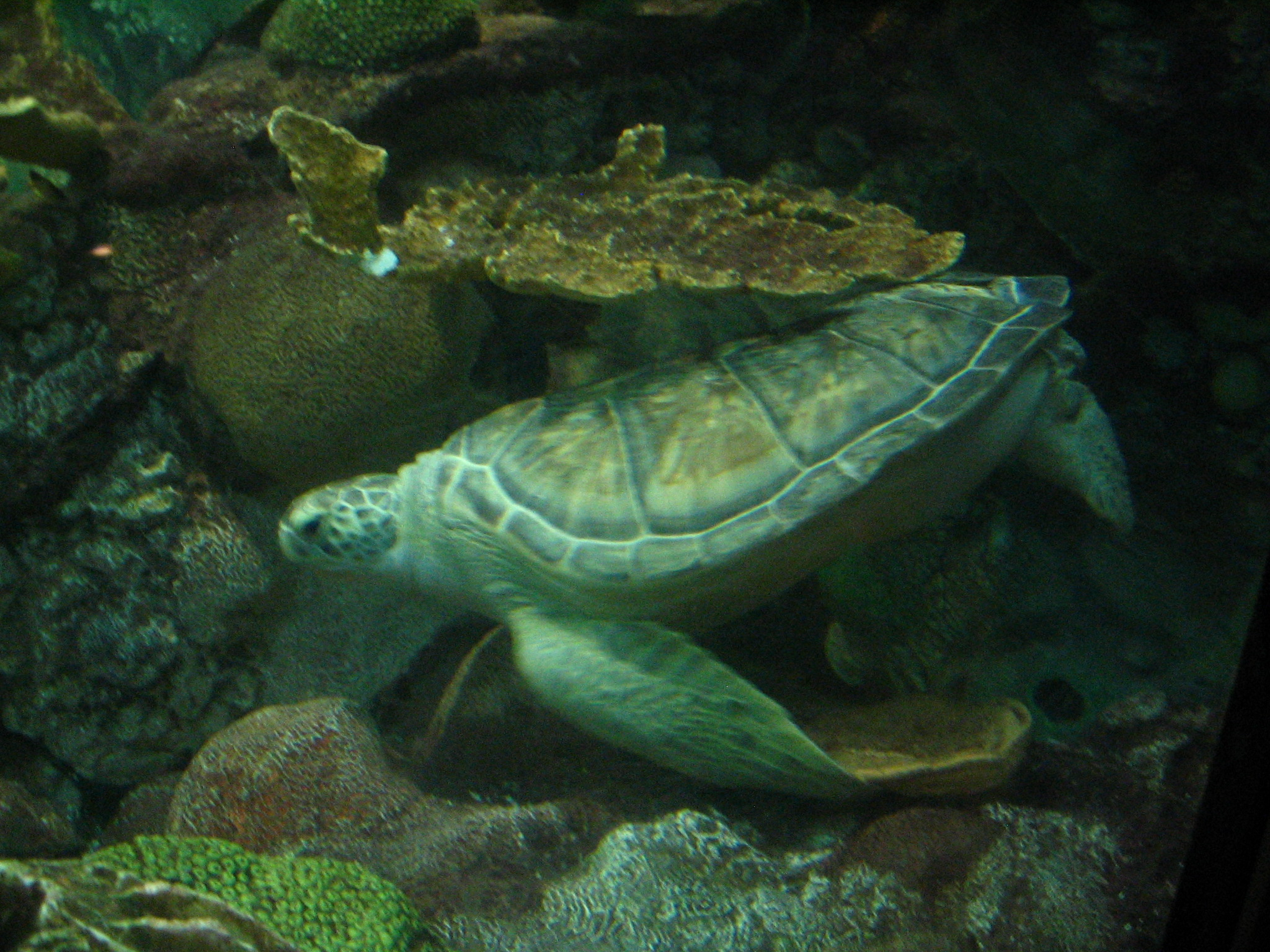 Nickel, a Green Sea Turtle at the Shedd Aquarium in Chicago. Named for the 1975 nickel found in her esophagus, Nickel was brought to the Shedd Aquarium in 2003. She can be seen in the Caribbean Reef Exhibit, often napping under the mock coral in the south of the exhibit (as depicted above). Green Sea Turtles are an endangered species, but due to a motor boat gash in the rear of her carapace, Nickel is unable to return to the wild. She was born in the mid to late 1990s.